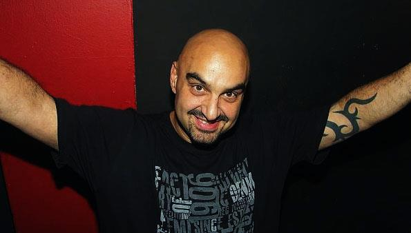 DJ Romeo at the Nox Club in Munich in 2012.